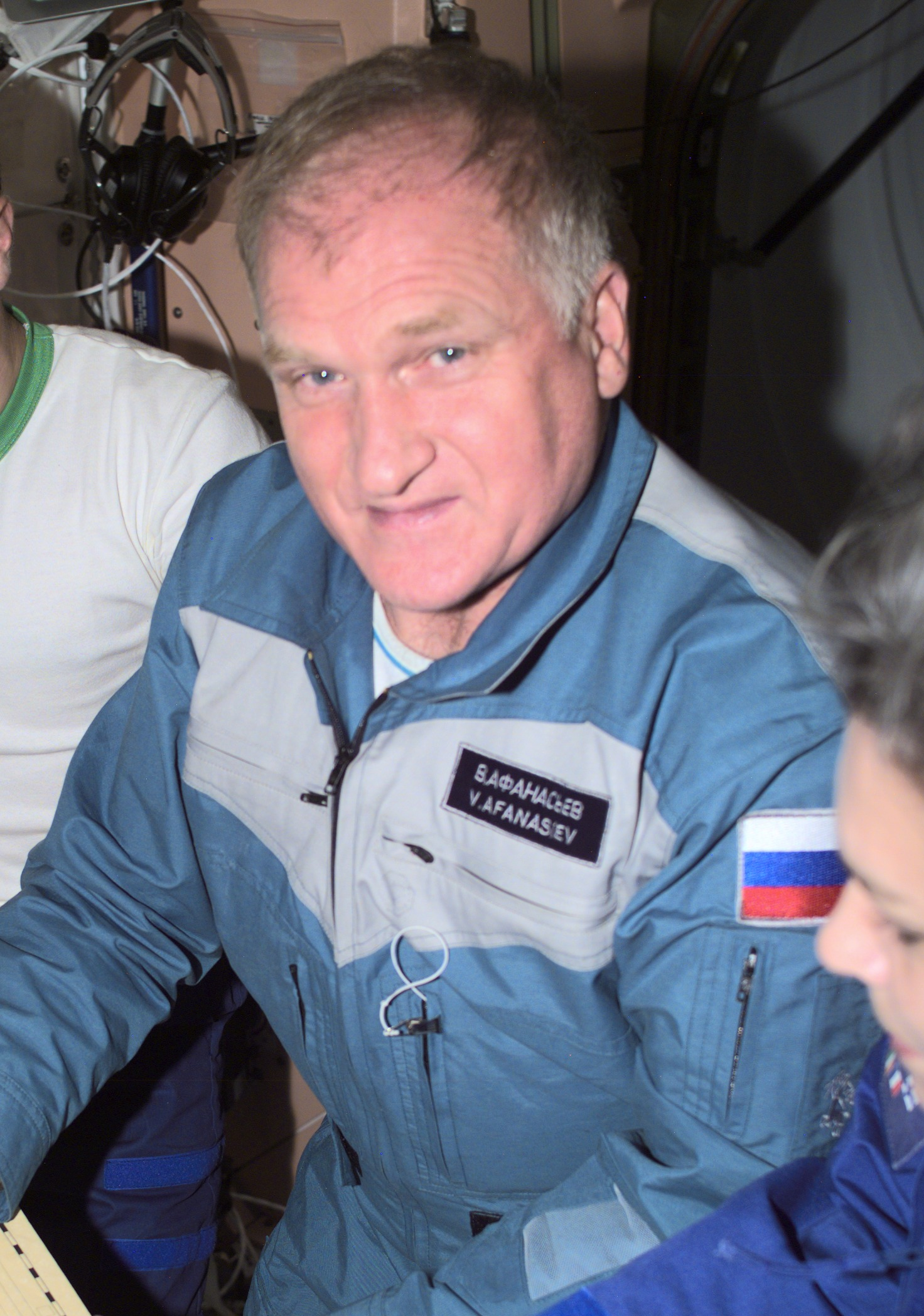 ISS003-E-7085 (23-31 October 2001) --- The Soyuz Taxi crewmembers, Flight Engineer Konstantin Kozeev (left), Commander Victor Afanasyev and French Flight Engineer Claudie Haignere add their names to the list of the International Space Station (ISS) visitors in the ship�s log in the Unity node. Afanasyev and Kozeev represent Rosaviakosmos, and Haignere represents ESA, carrying out a flight program for CNES, the French Space Agency, under a commercial contract with the Russian Aviation and Space Agency. This image was taken with a digital still camera.